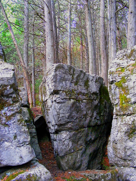 Warsaw Caves Area, Ontario, Canada, Near Peterborough,[photo by P.B.Toman]